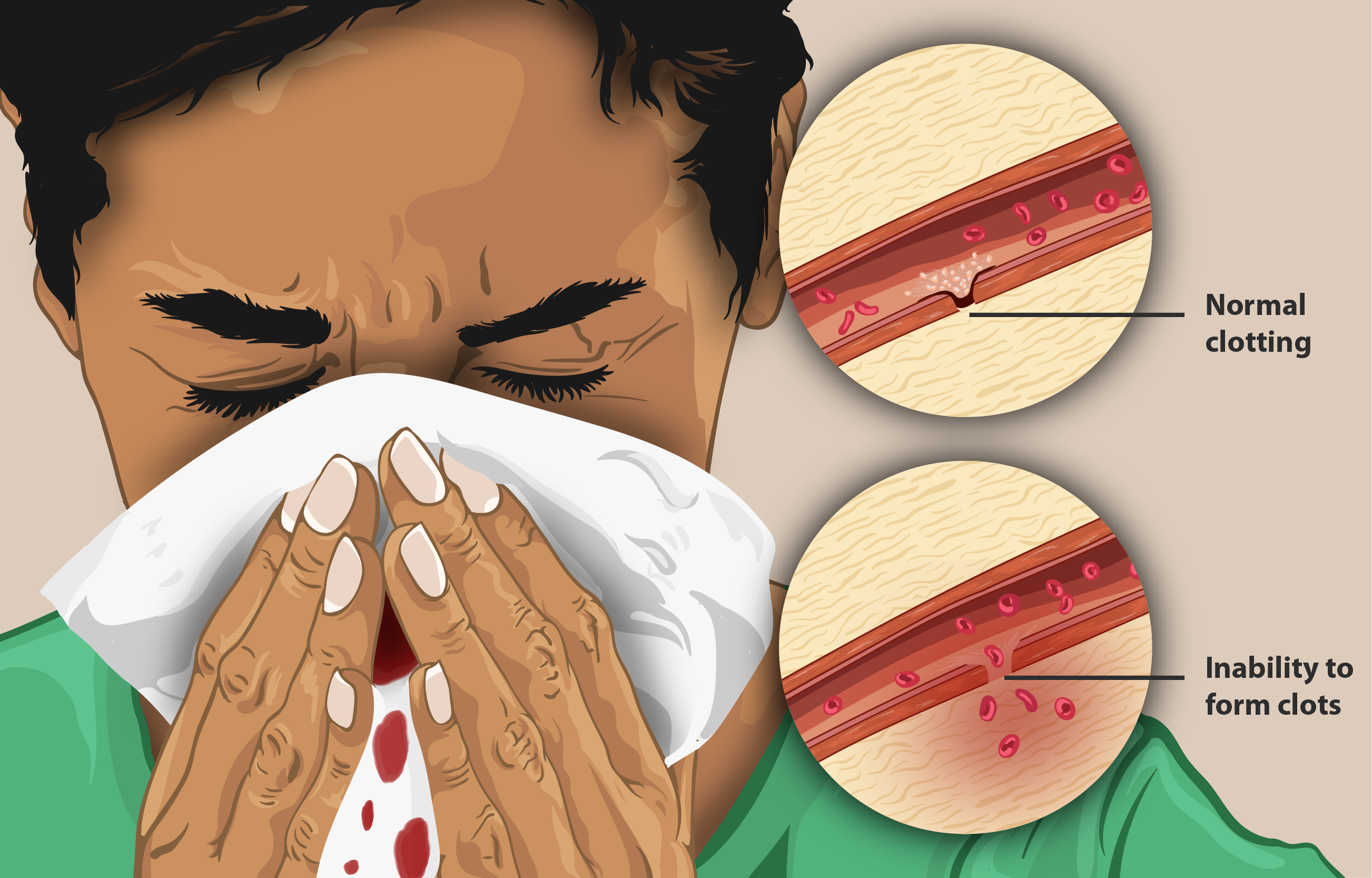 A woman suffering from Hemophilia, with an inability to form blood clots depicted